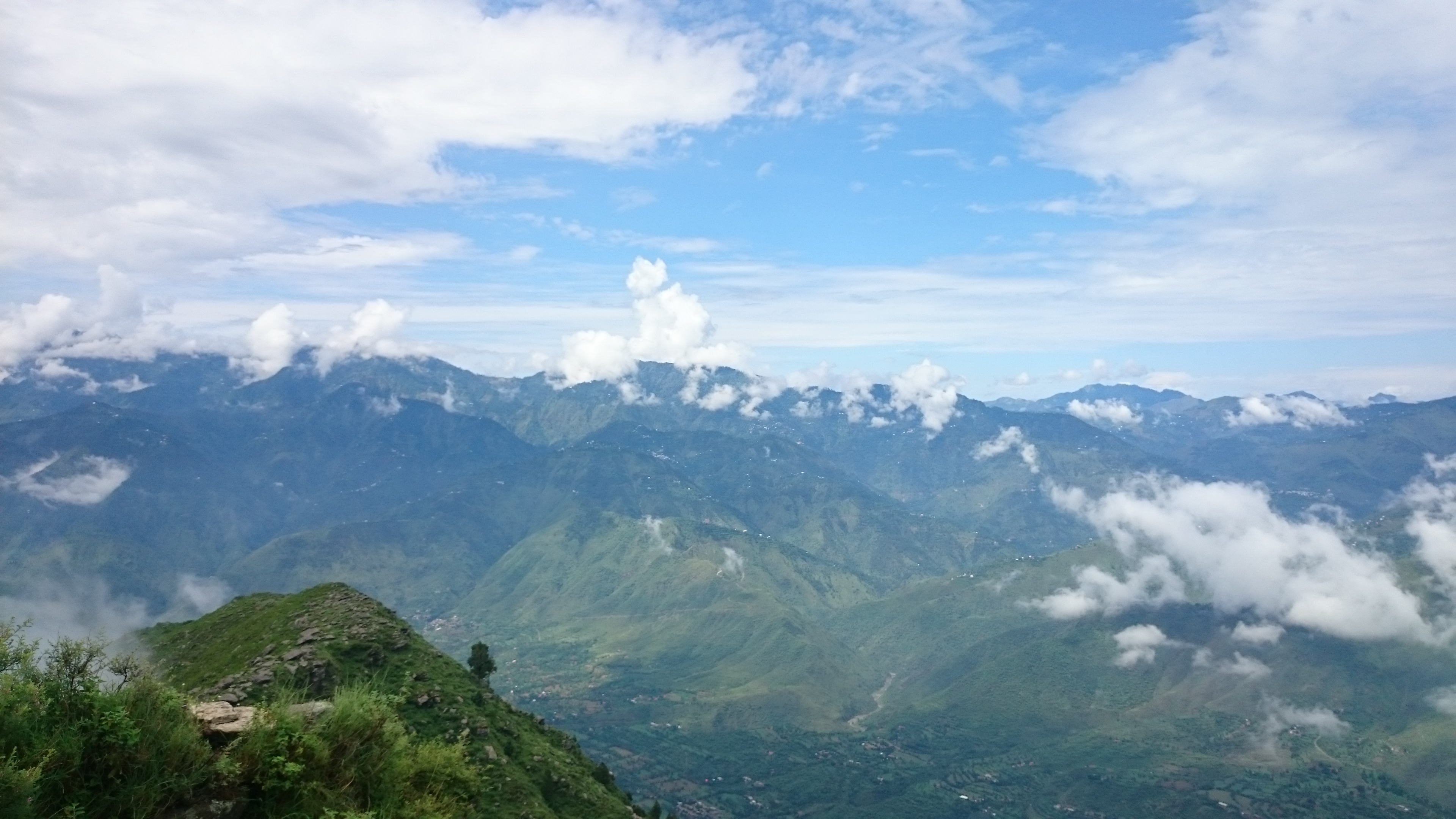 a photo taken in kala dhaka a village in khyber paktoon khuwa pakistan.